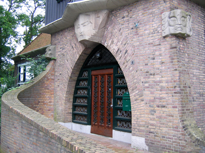 Dutch Architecture: School of Amsterdam 1920 Building Wageningen Architect: C.J.Blaauw